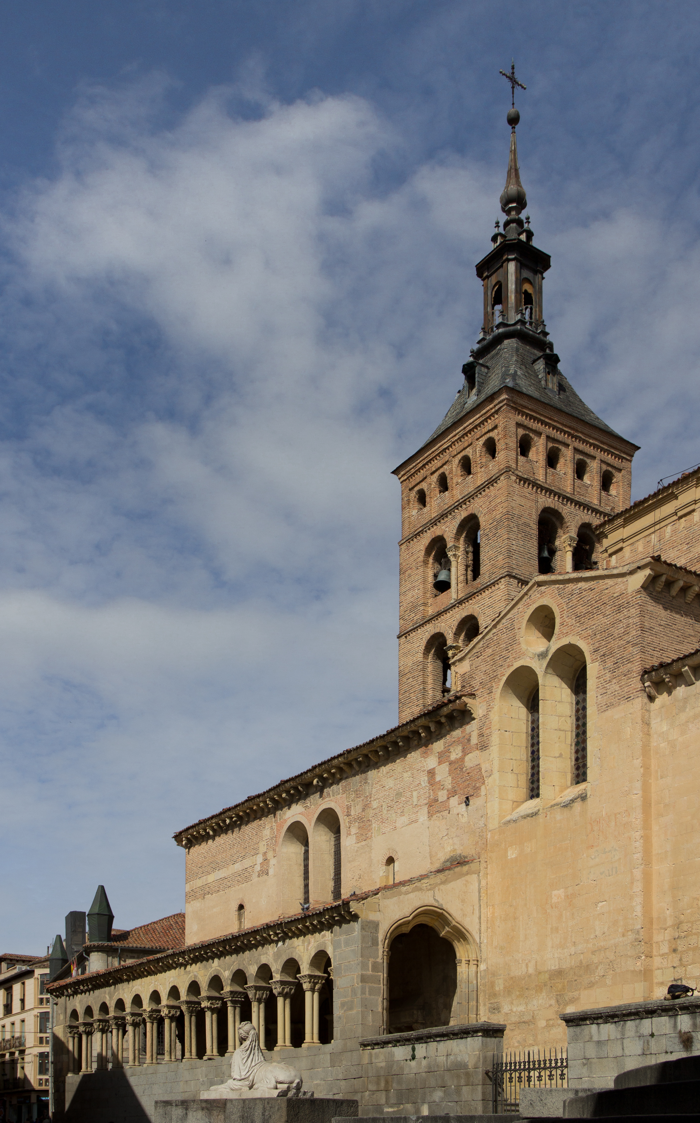 Church of San Martín, Segovia, Spain.